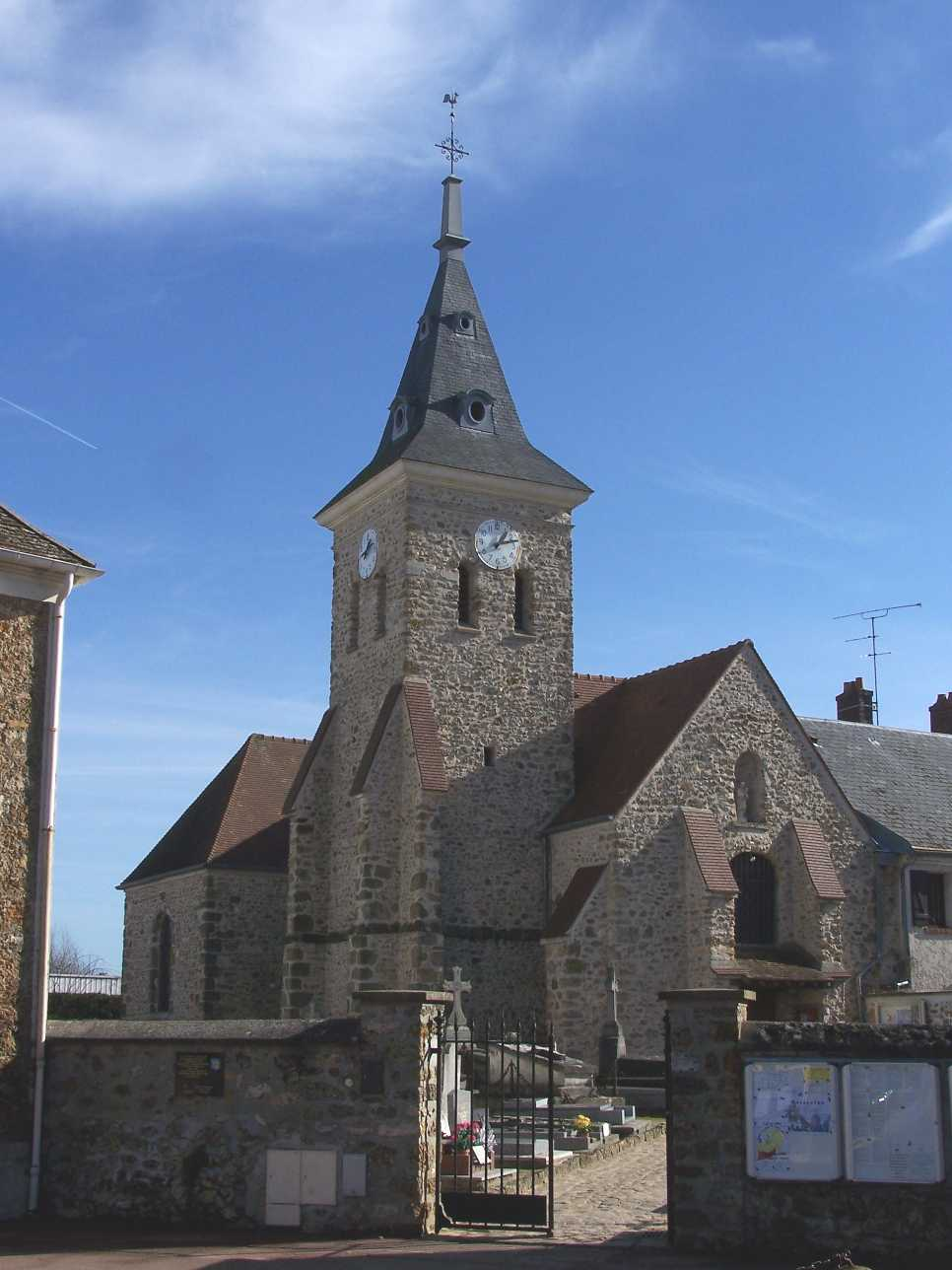 Church of Voisins-le-Bretonneux (Yvelines, France)